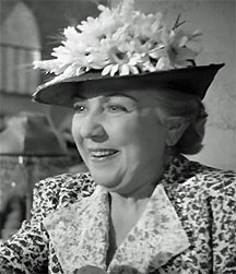 This screenshot shows Ilka Grüning as Mrs. Leuchtag.